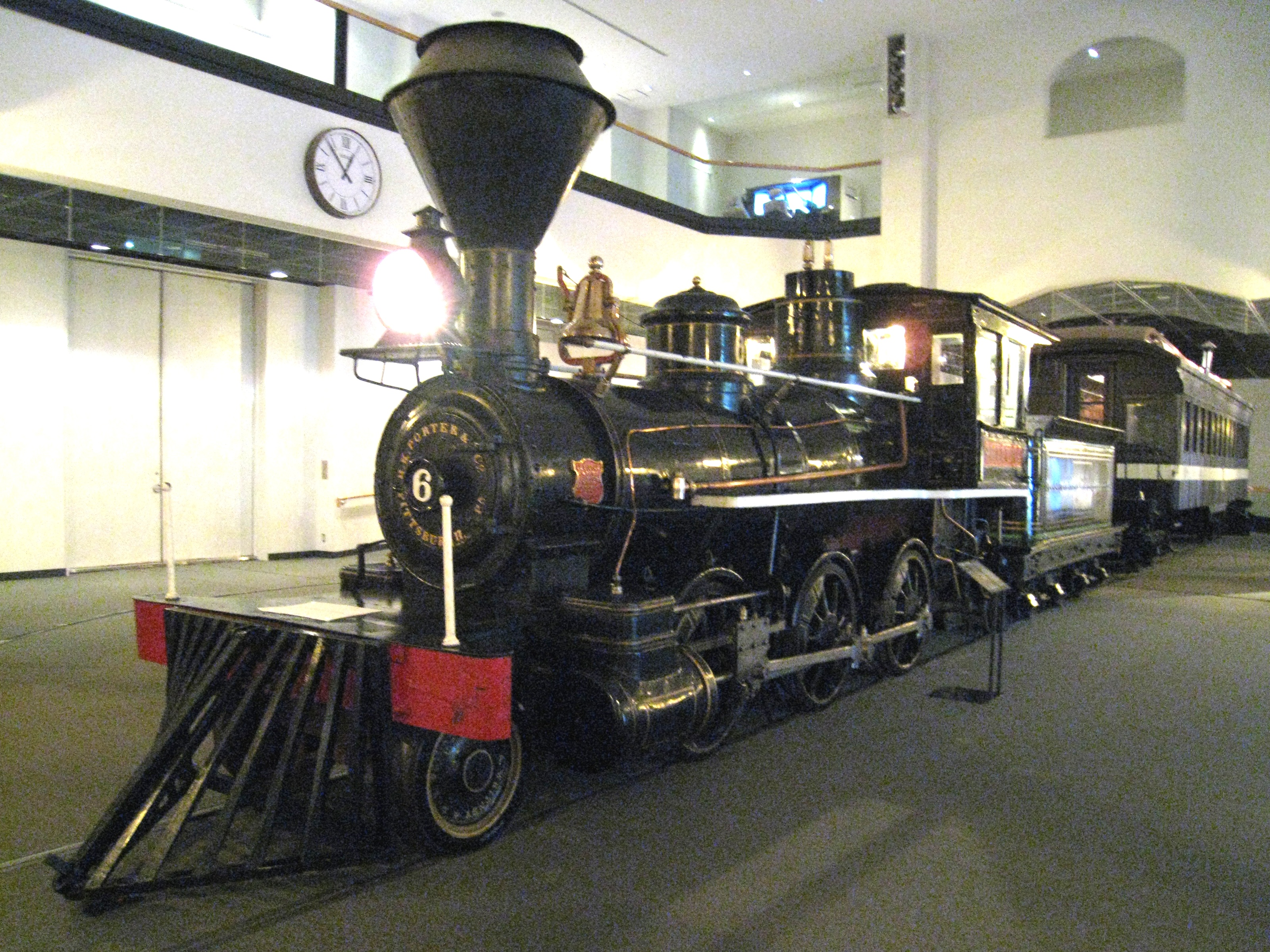 Photograph of steam locomotive (H. K. Porter No.672, build 1884) by Otaru Museum in Otaru City, Hokkaido Prefecture.